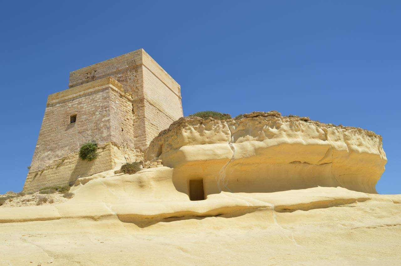 Xlendi Tower This media is about Maltese cultural property with inventory number 00036.